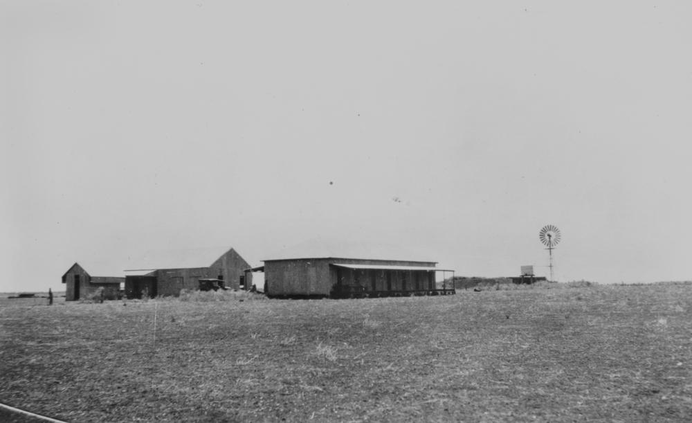 Shearers' quarters at Carandotta Station, 1934 Carandotta Station is in far western Queensland, near the Northern Territory border.